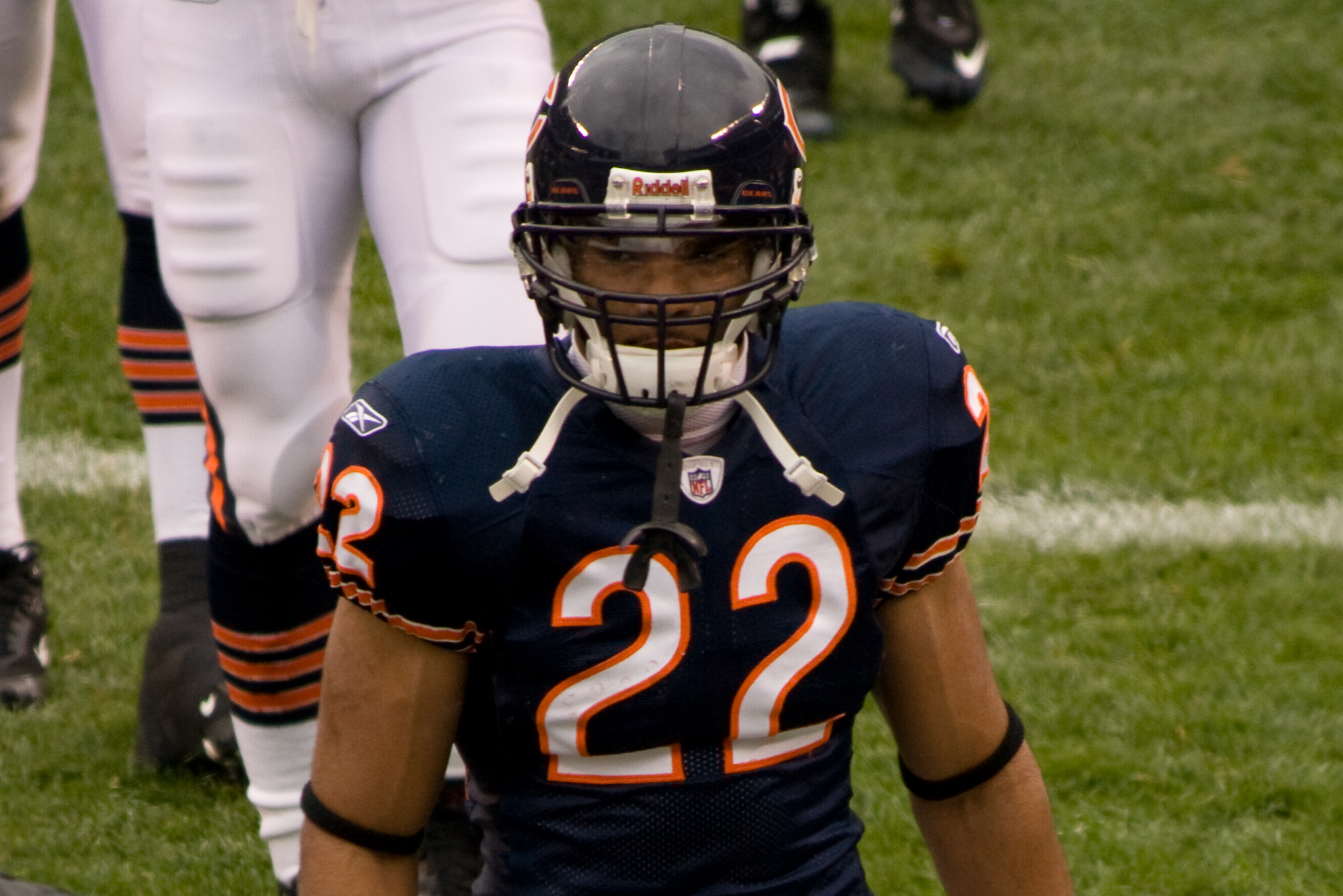 Matt Forté of the Chicago Bears